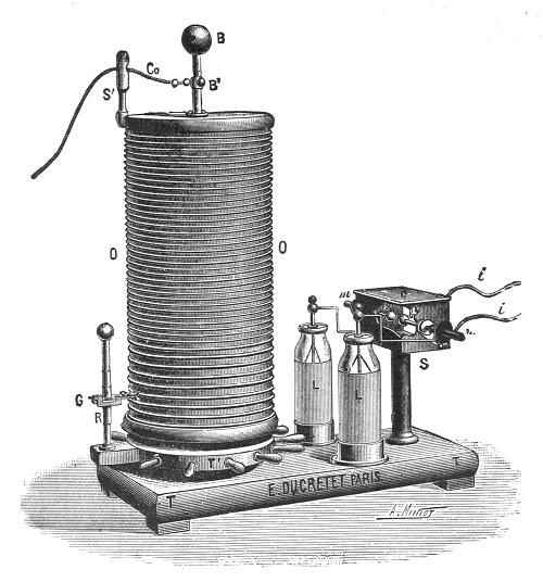 An Oudin coil, a resonant transformer circuit invented by Paul Marie Oudin in 1892, which generates high voltage, low current, high frequency AC electricity, used in the obsolete medical field of electrotherapy around the turn of the 20th century. The high voltage terminal at the top of the coil (B) was connected through a wire to a handheld electrode which produced luminous streamer arcs, which were applied to the body to treat various medical conditions. It was very similar to a Tesla coil, the only difference being that in the Oudin the output voltage was taken across both the primary and secondary windings of the coil in series, like an autotransformer. An induction coil (not shown) provided high voltage 2 - 15 kV current to repeatedly charge the Leyden jar capacitors (L), which discharged by a spark across a spark gap in the box (S). This caused oscillating currents to flow through the heavy bottom primary winding of the Oudin coil (O), which formed a tuned circuit with the capacitors. This induced oscillating currents in the upper secondary winding, which resonated with the parasitic capacitance of the coil. The number of turns of the primary in the circuit could be adjusted by the tap (G) which changed its resonant frequency. When the primary and secondary circuits were adjusted to resonate at the same frequency very high voltage oscillations were induced in the secondary. Oudin coils could produce voltages of 250,000 to 1,000,000 volts. Instead of a single capacitor, two are used, one in each leg of the primary circuit, to completely isolate the patient from the power transformer voltage, which could be lethal.